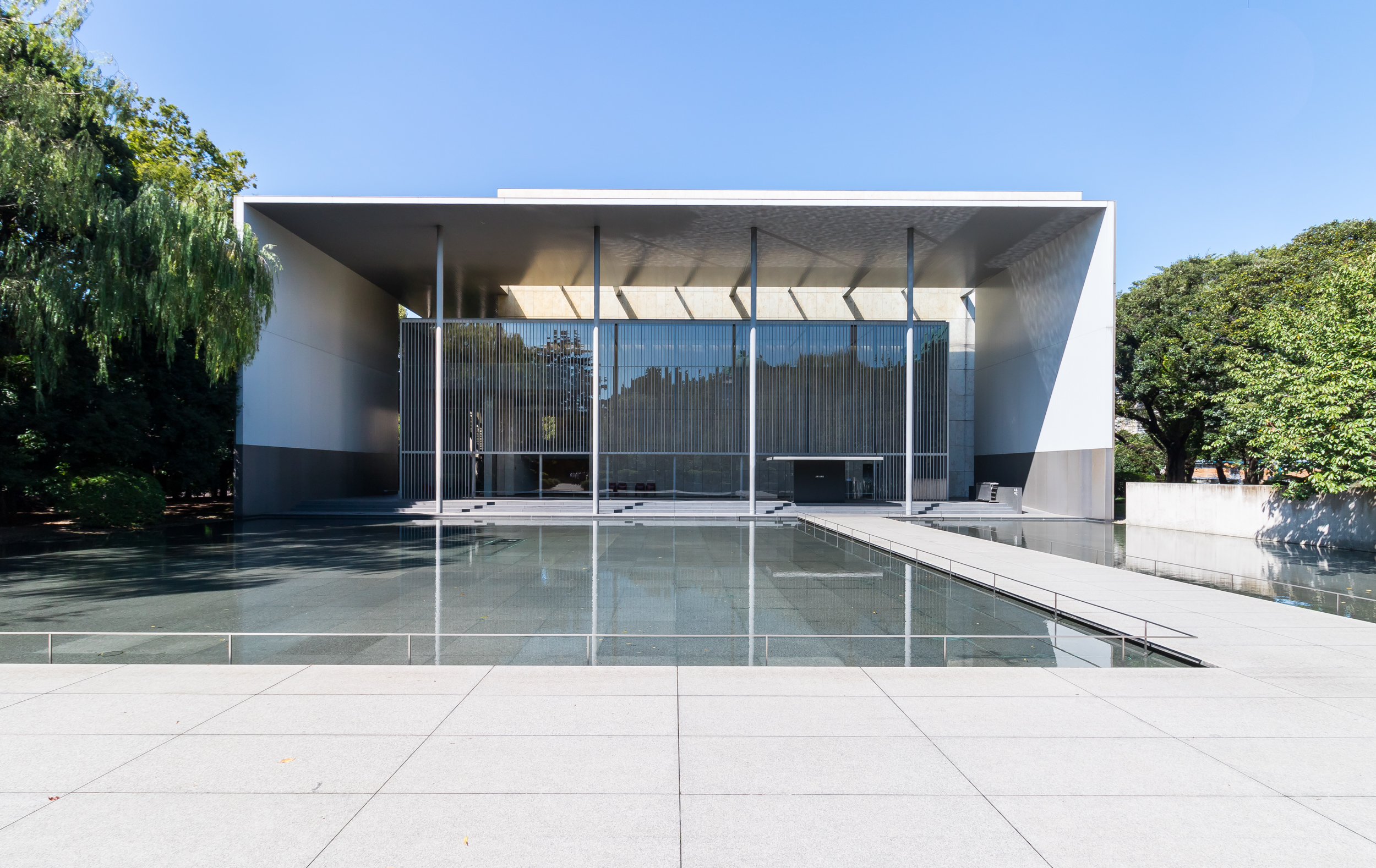 東京国立博物館 - 法隆寺宝物館（設計：谷口吉生）